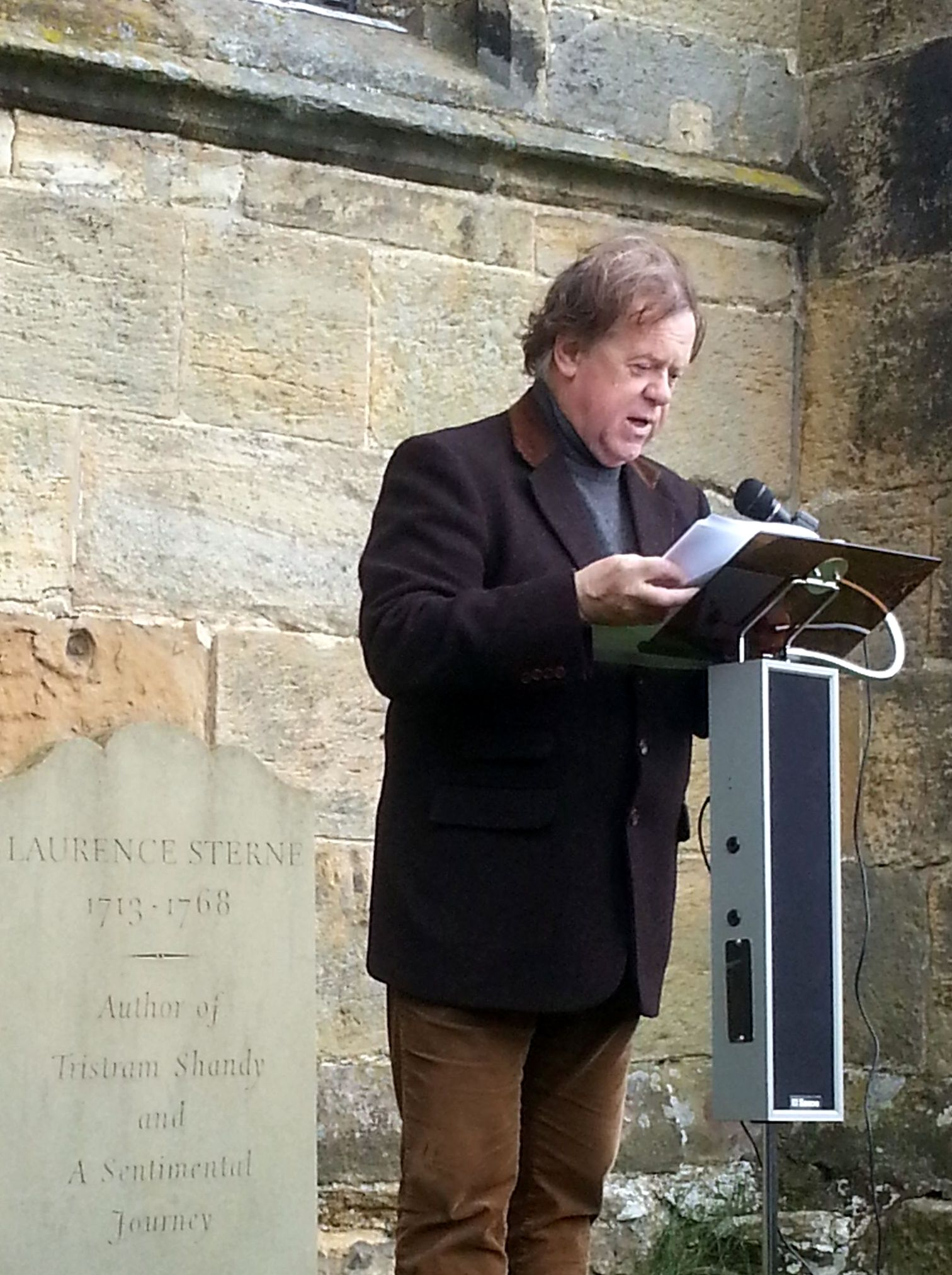 Jonathan Meades giving a lecture on the grave of Laurence Sterne, Coxwold. 2012